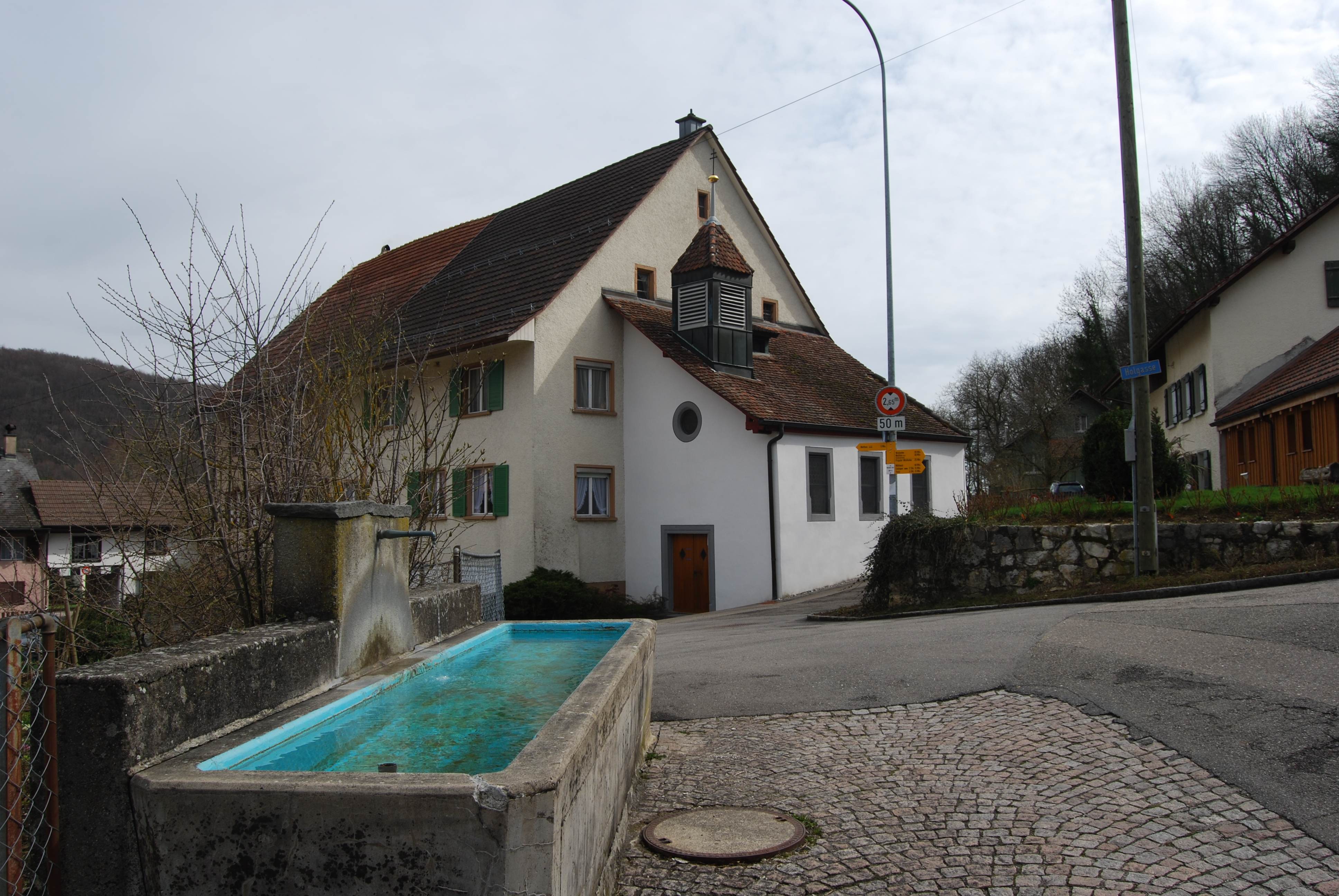 Chapel of Mellikon, canton of Aargau, SwitzerlandEsperanto: Kapelo de Mellikon, Kantono Argovio, Svislando